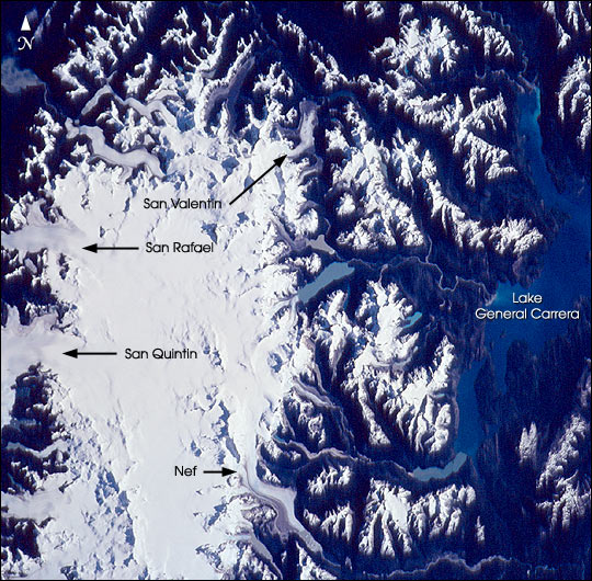 Northern Patagonian Ice Field, Chile - December 2001 image description here larger version, but without description is available here